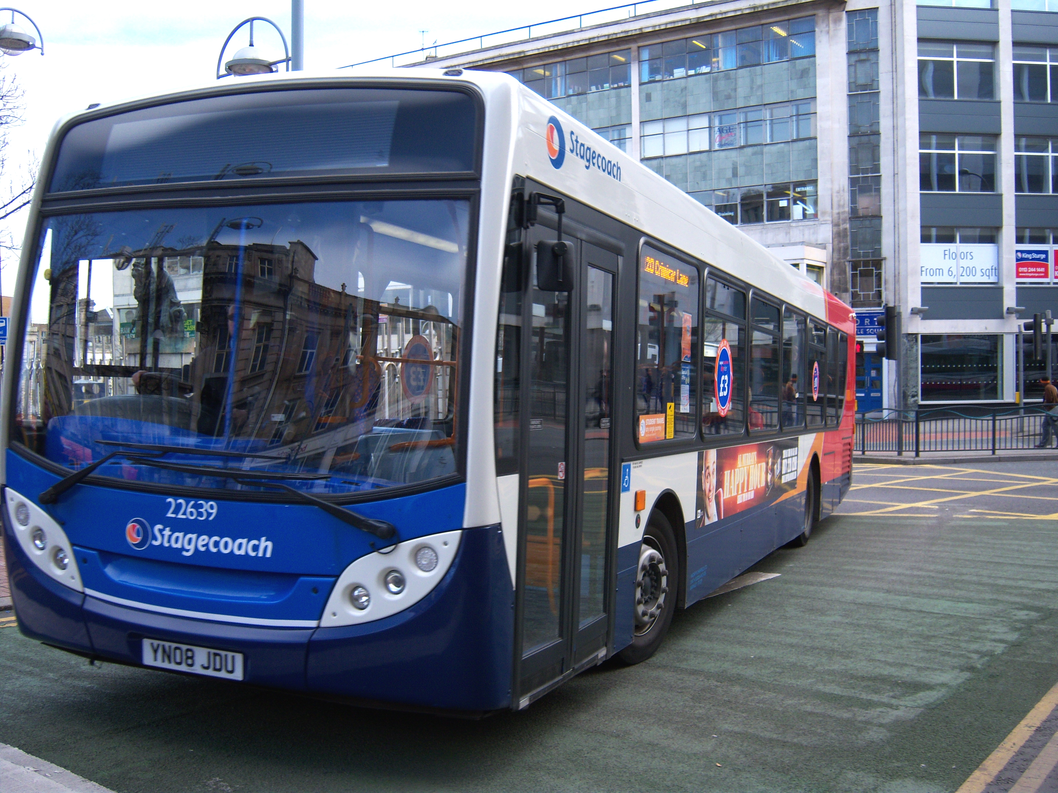 Stagecoach buses in Sheffield